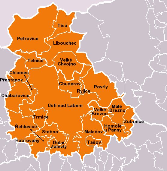 Municipalities of Ústí nad Labem District as of January 1, 2010 (23 municipalities in total). White lines of variable thickness show boundaries of municipalities, administrative areas, districts and nations.